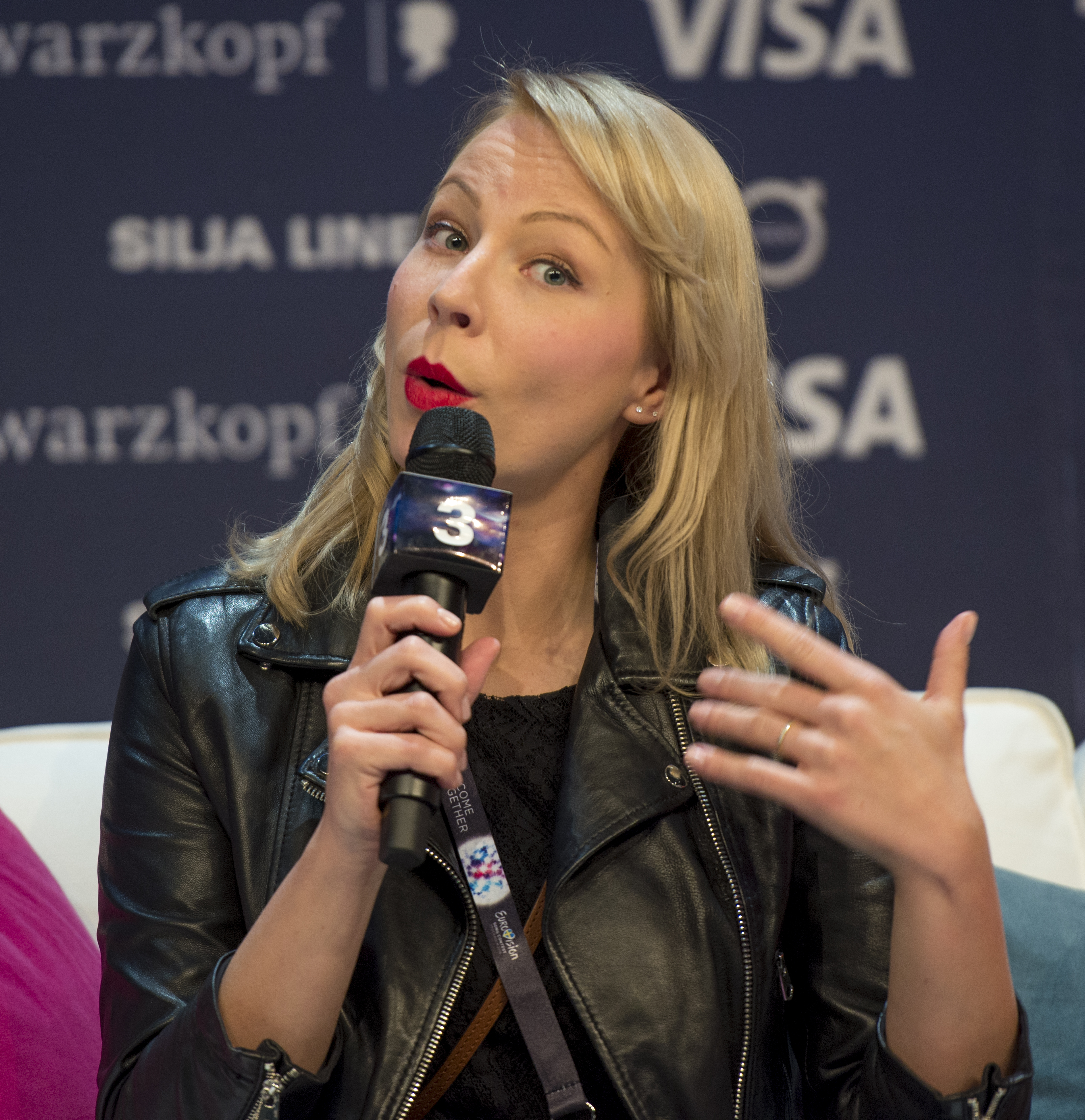 ManuElla at a Meet & Greet during the Eurovision Song Contest 2016 in Stockholm. (Help translate this text)